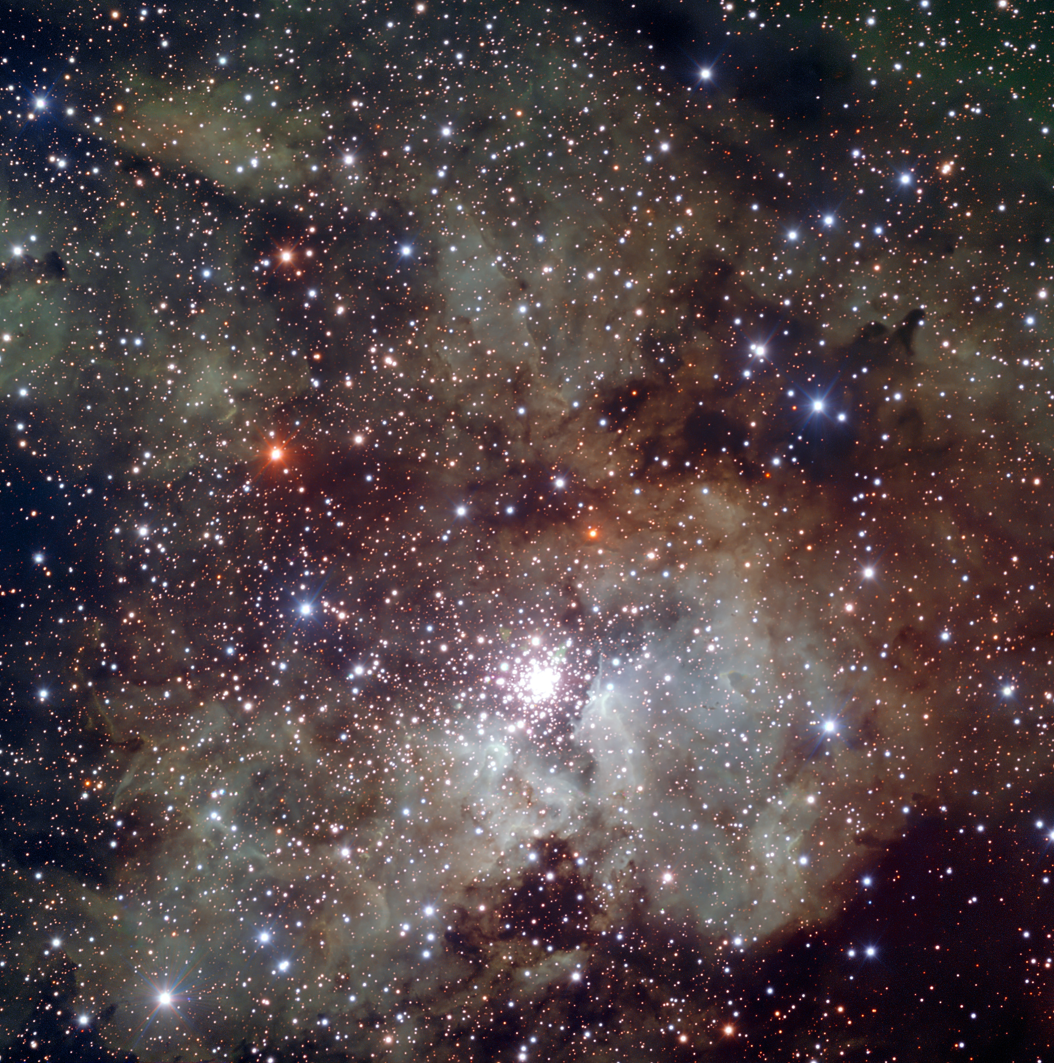 NGC 3603 is a starburst region : a cosmic factory where stars form frantically from the nebula’s extended clouds of gas and dust. Located 22,000 light-years away from the Sun, it is the closest region of this kind known in our galaxy, providing astronomers with a local test bed for studying the intense star formation processes, very common in other galaxies, but hard to observe in detail because of their large distance. The newly released image, obtained with the FORS instrument attached to one of the four 8.2-metre VLT Unit Telescopes at Cerro Paranal, Chile, is a three-colour combination of exposures acquired through visible and near-infrared (V, R, I) filters. This image portrays a wider field around the stellar cluster and reveals the rich texture of the surrounding clouds of gas and dust. The field of view is 7 arcminutes wide.